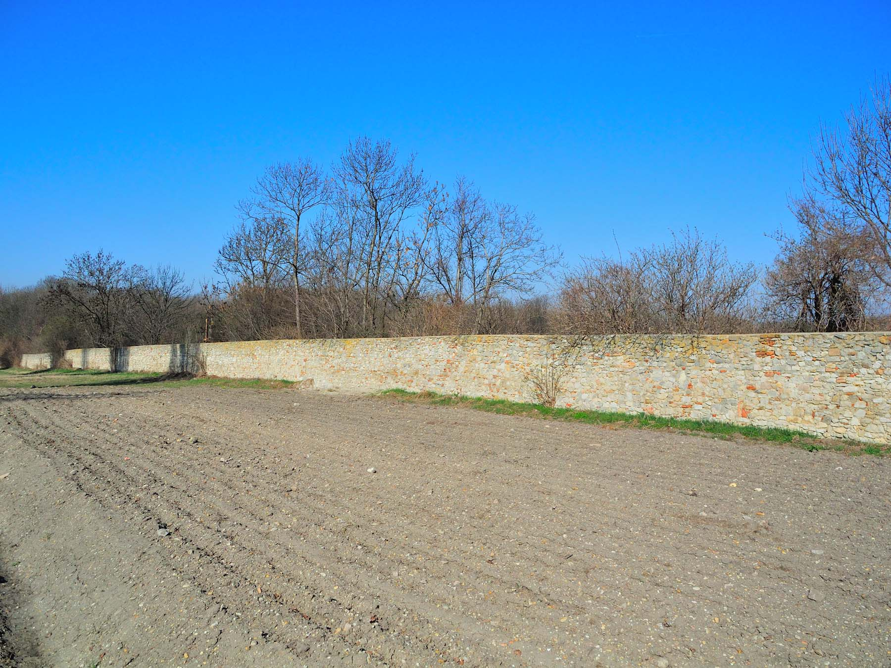 Wall of the former zoological garden in Petronell-Carnuntum, Lower Austria, Austria